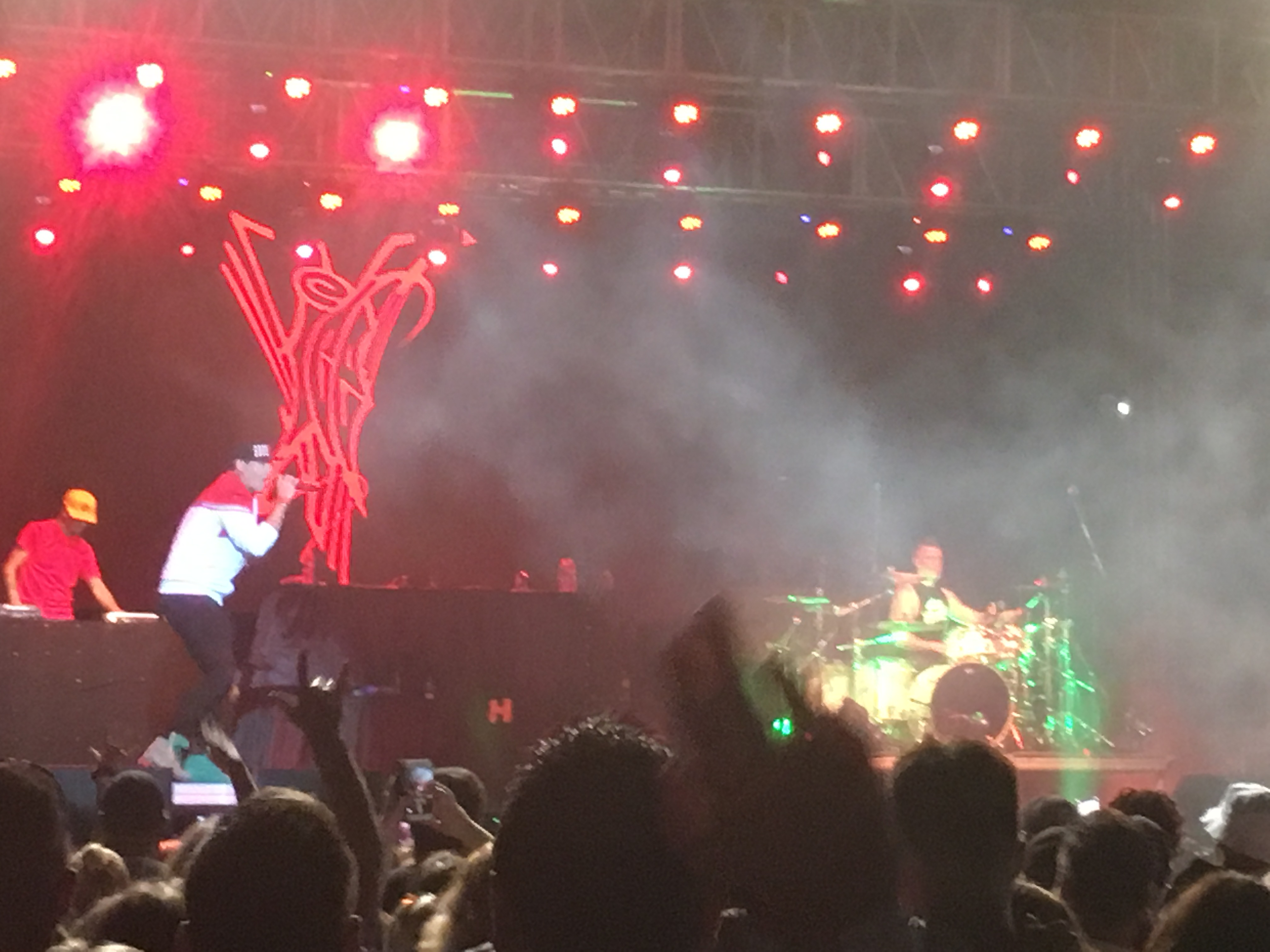 Vanilla Ice performing at InfoCision Stadium in Akron, Ohio